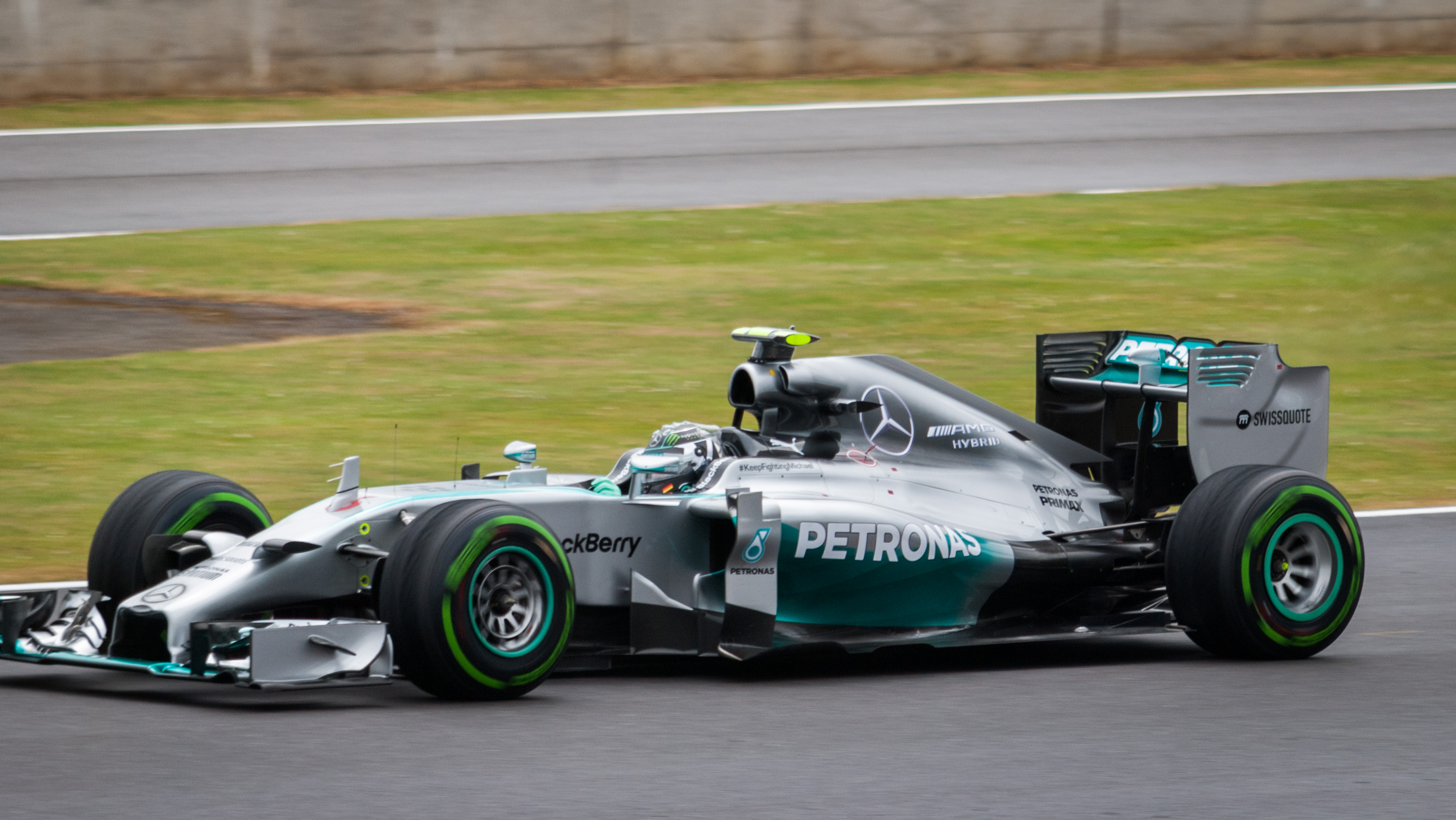 Nico Rosberg driving for a Mercedes W05 during qualifying for the 2014 British Grand Prix